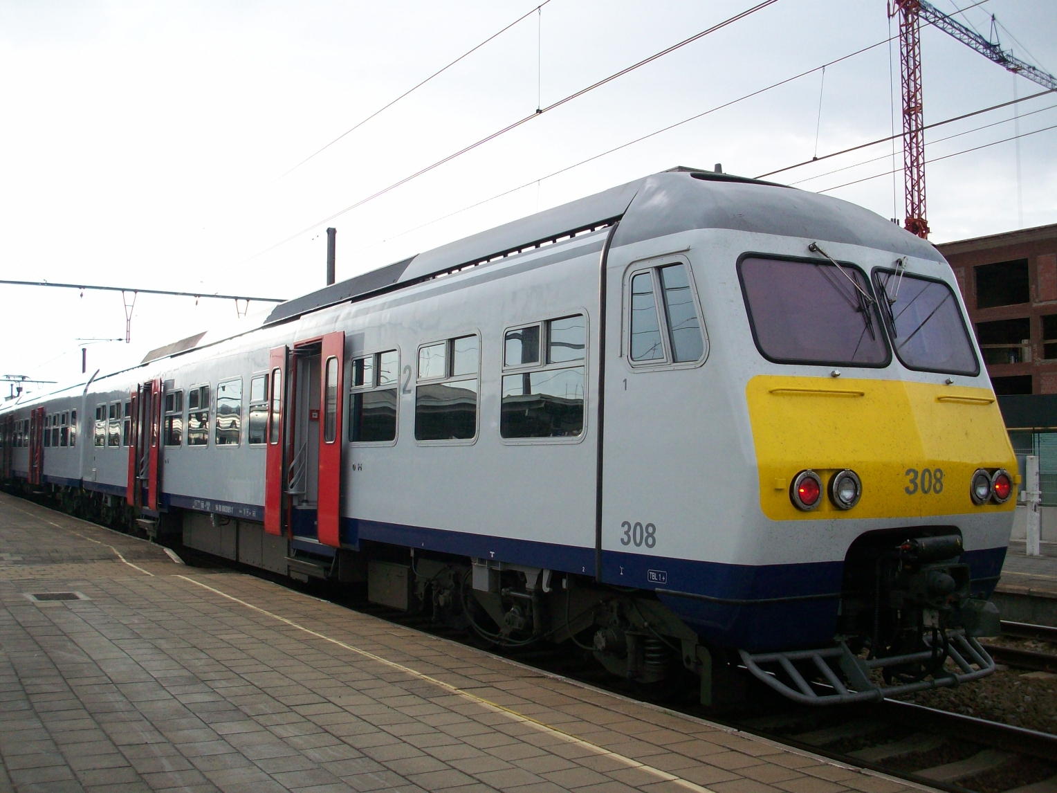 NMBS train of type "Break" (AM80) with the New Look style in the station of Kortrijk